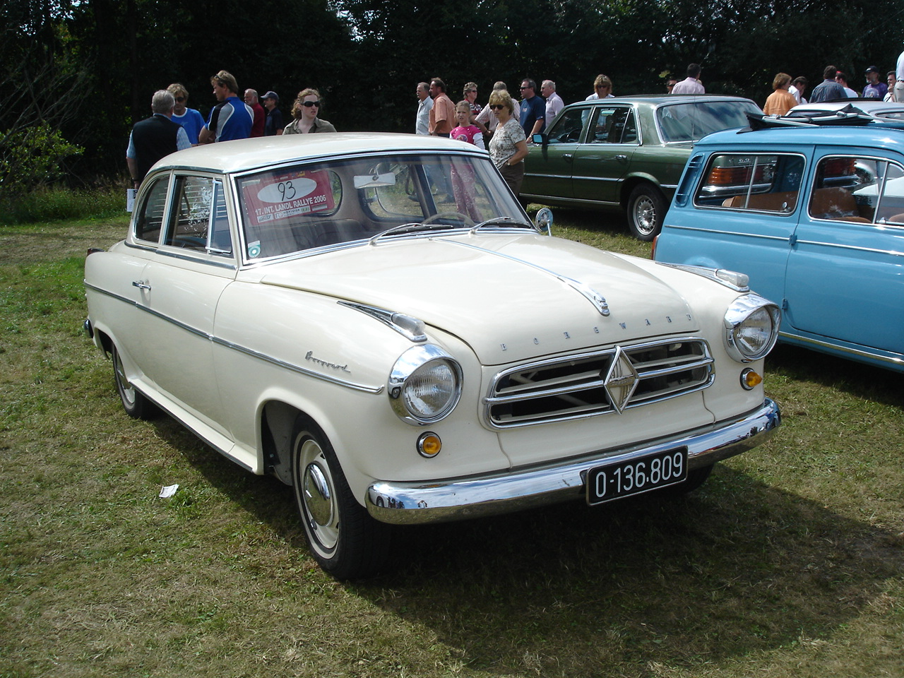 Borgward Isabella